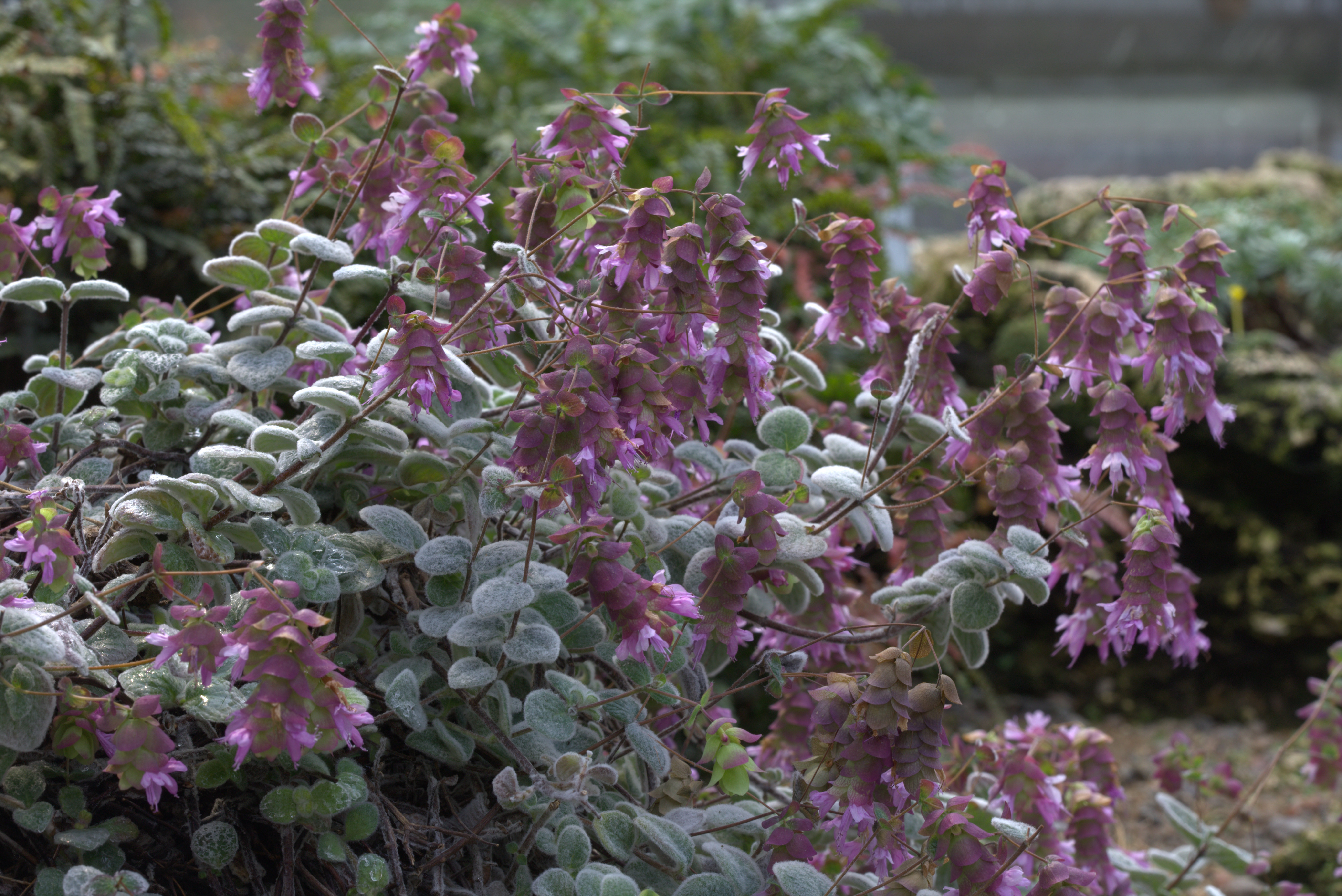 Origanum dictamnus in Gothenburg Botanical Garden. Plant id: 1980-3768 p G -- Köpenhamn